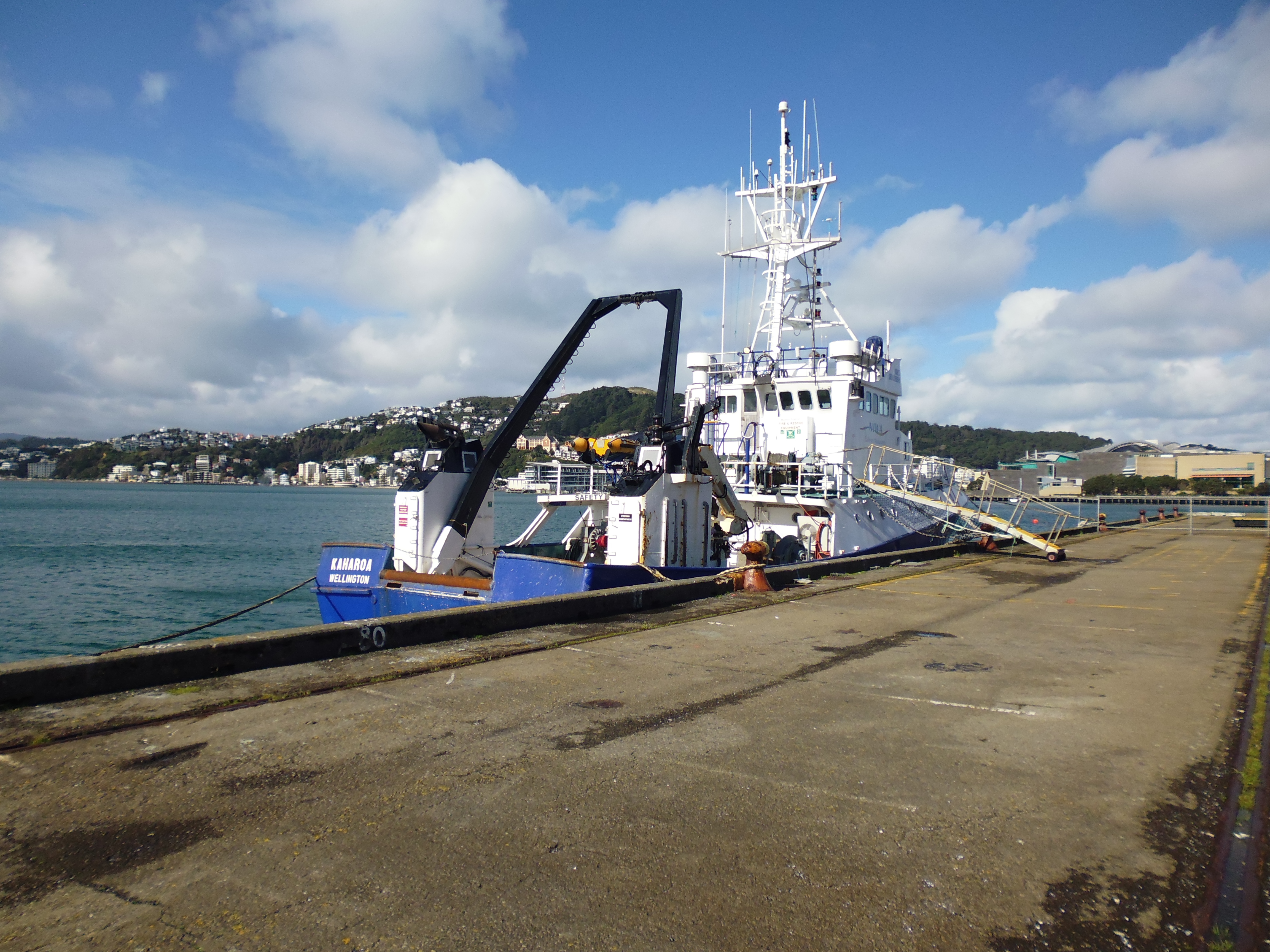 A NIWA research vessel moored in Wellington, New Zealand.